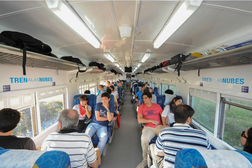 Interior of a Tren a las Nubes Carriage in Salta, Argentina.